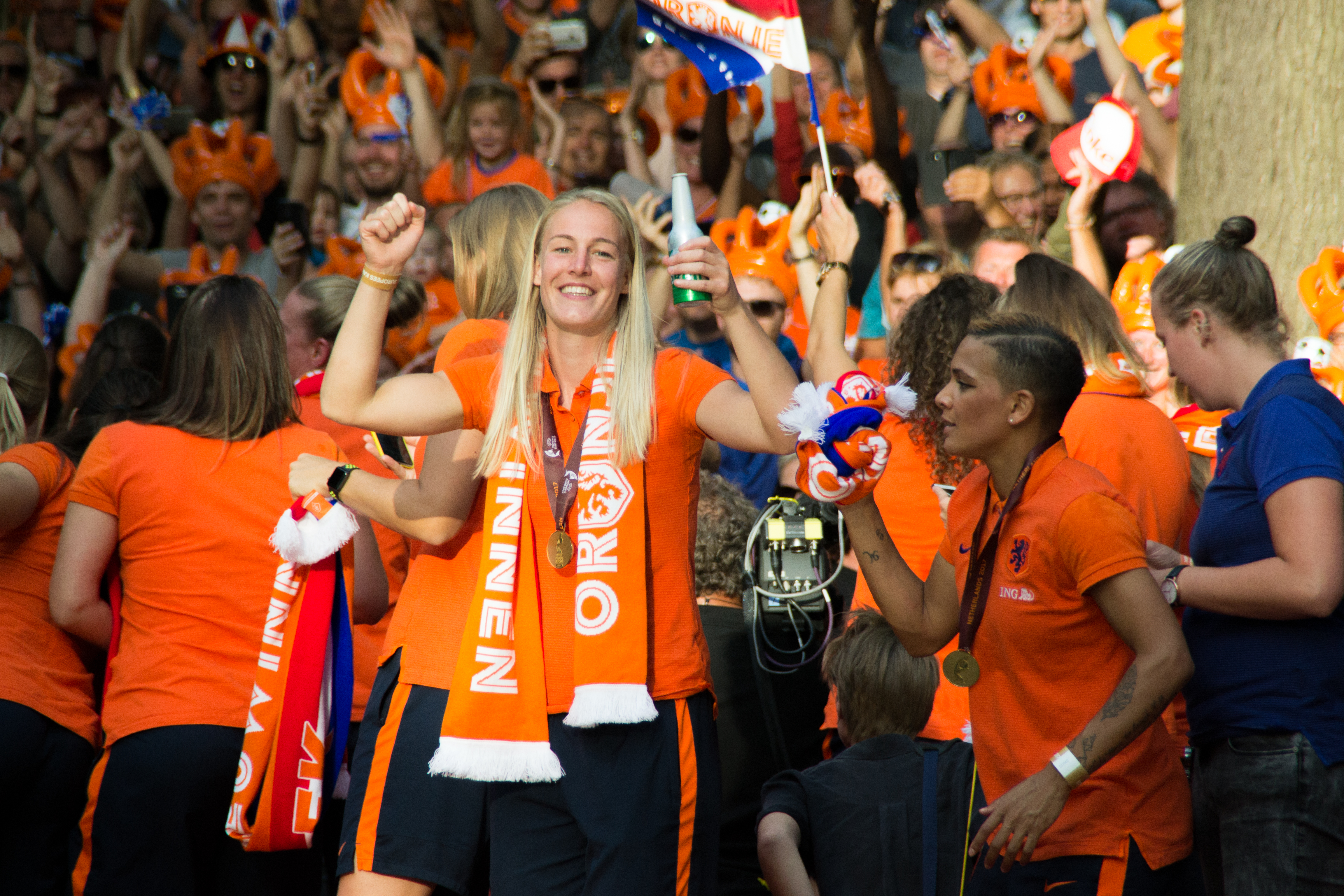 Stefanie van der Gragt during the honouring of the Dutch National Female Football Team at Utrecht Lepelenburg